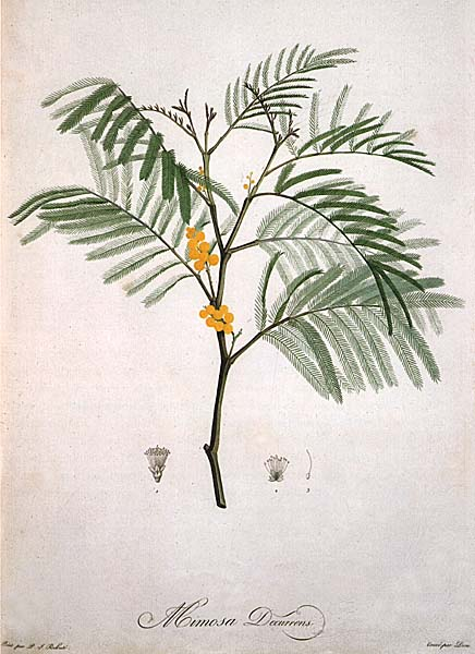 Acacia decurrens Black Wattle Green Wattle From: 'Jardin de la Malmaison' (1804-1805) by E.P.Ventenat France Published as: Mimosa decurrens